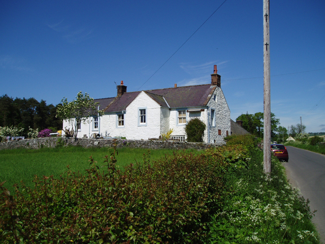 Courthill Smithy, Keir Mill, Dumfries and Galloway; home of Kirkpatrick Macmillan, inventor of the bicyle